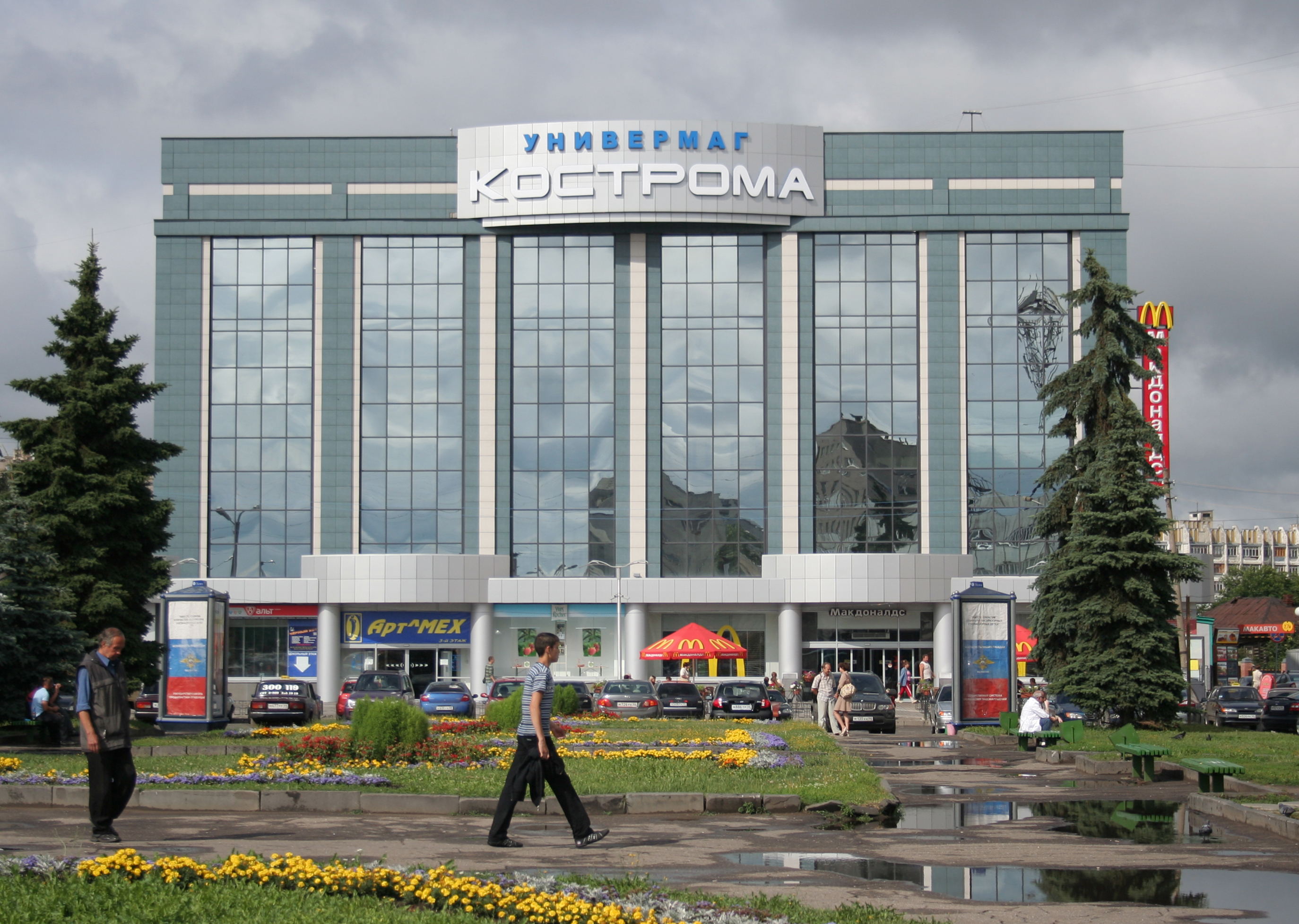 Department store and a McDonald's restaurant in Kostroma, Russia.